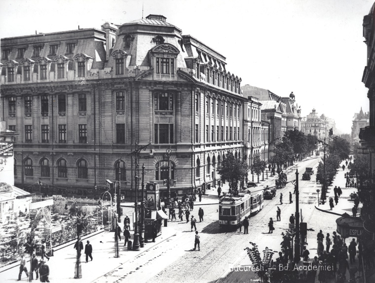 Academy Boulevard